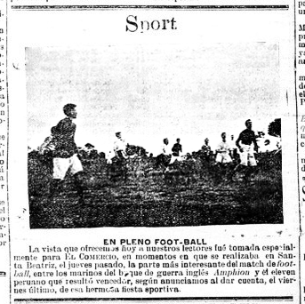 A newspaper article reporting the victory of Peruvians over players from the British ship HMS Amphion.